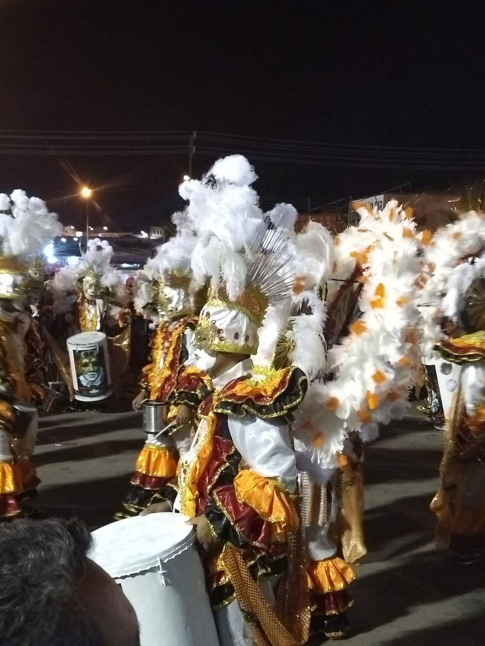 Príncipe de Roma